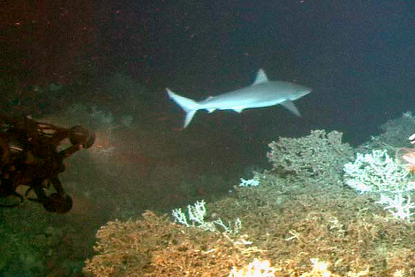 Bignose shark, Carcharhinus altimus, off Cape Lookout, North Carolina